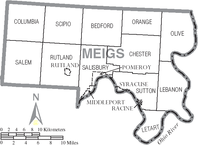 Map of Meigs County, Ohio, United States with township and municipal boundaries